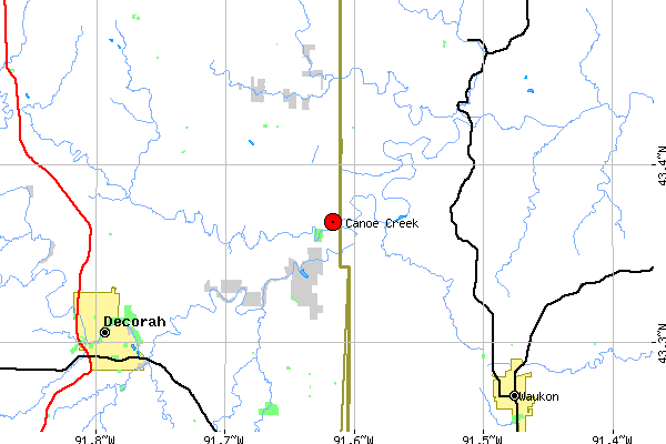 Map showing the location of Canoe Creek